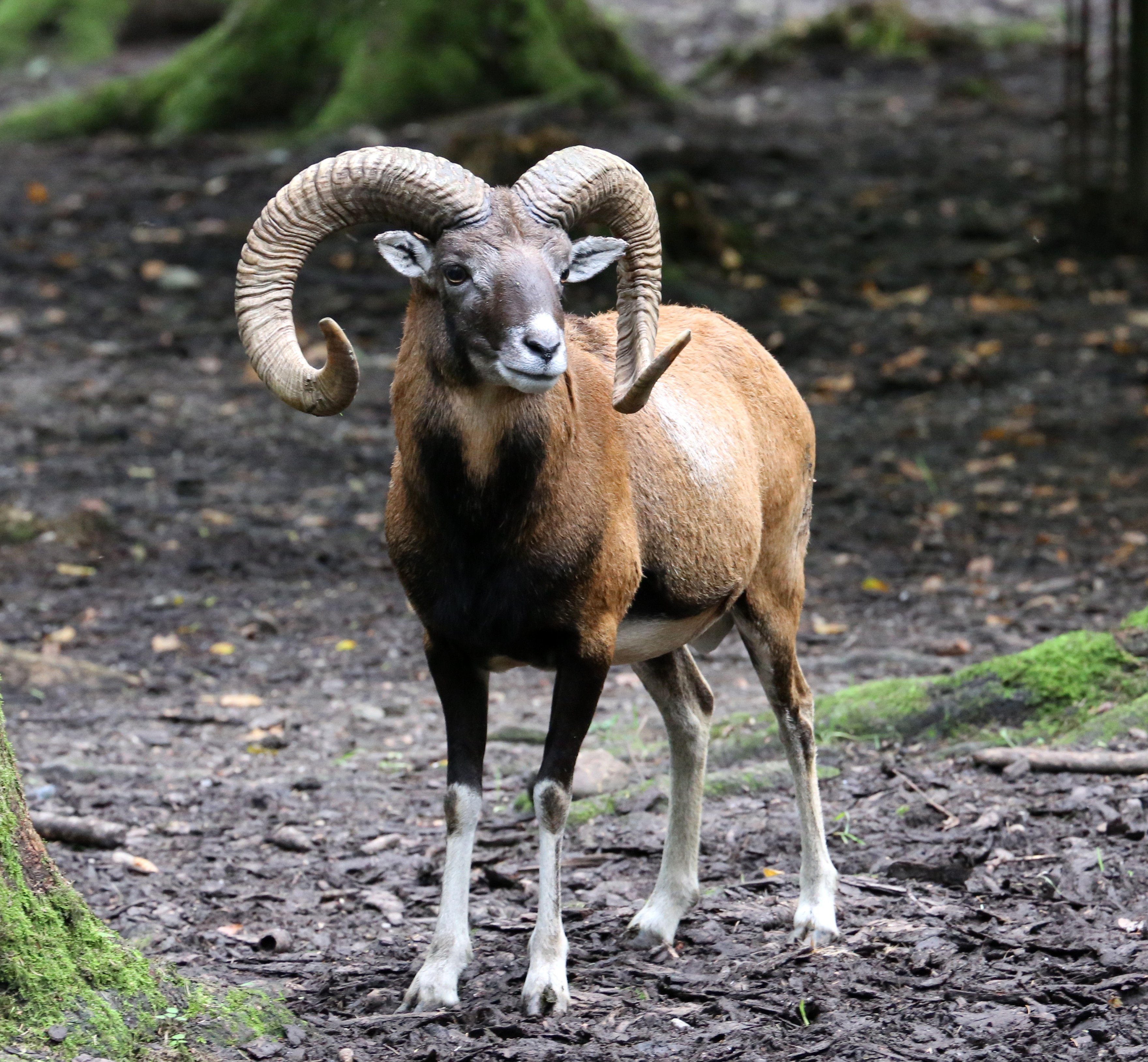 Mufflons (Ovis orientalis musimon) im Wildpark Poing